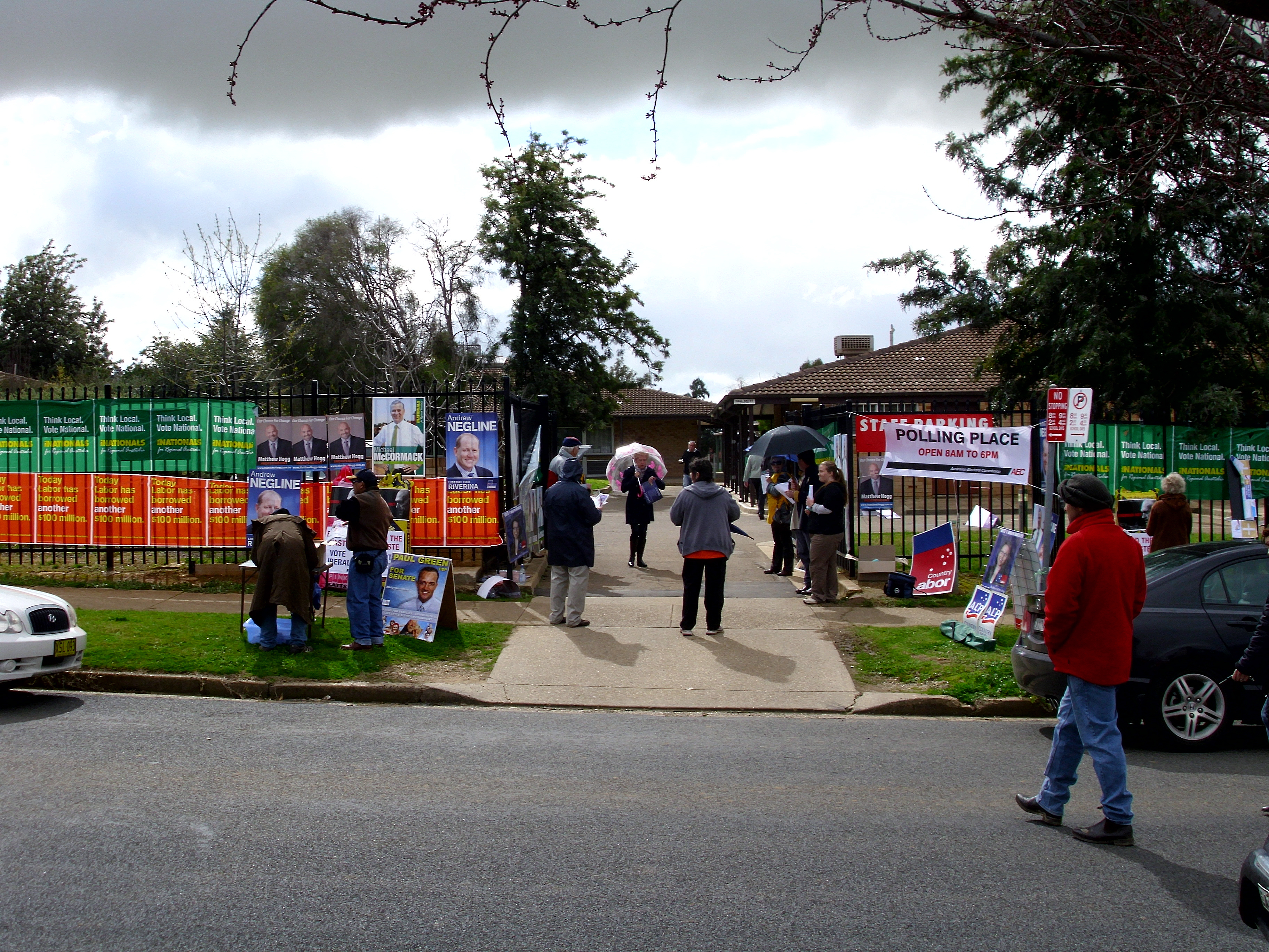 A polling place in the Division of Riverina at the 2010 Australian federal election.